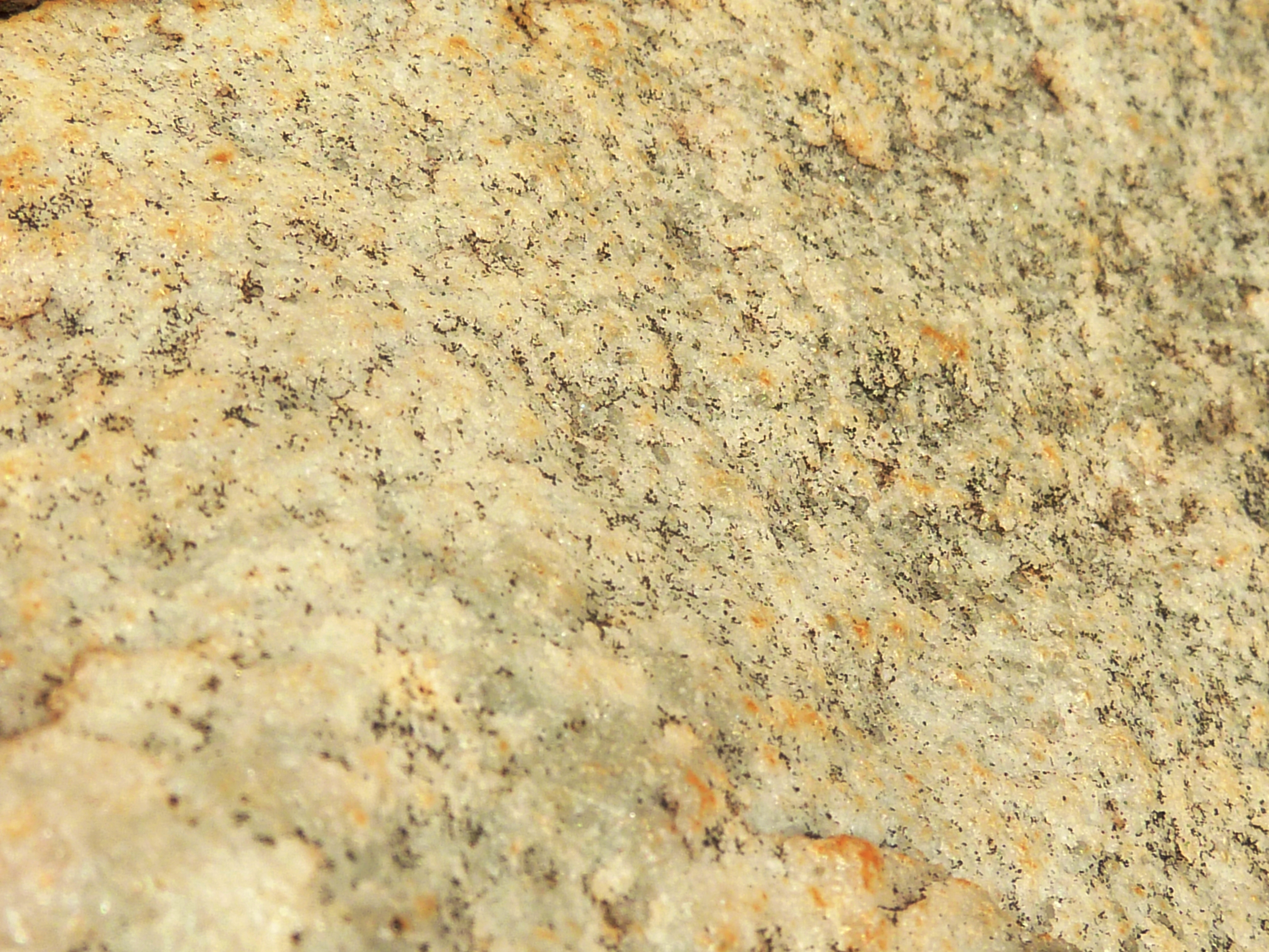 Quartzite of the Daspoort formation in the Pretoria Group, in Faerie Glen Nature Reserve, Pretoria. It is nonreactive and resistant to erosion, and consequently forms the crest of the hill. The sandstone layer was transformed to quartzite some 2.1 billion years ago, and was afterwards tilted to the north, towards a very large, ancient magma chamber, situated about 15 km kilometers to the north.